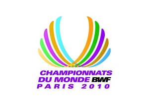 Logo of the BWF World Championships 2010